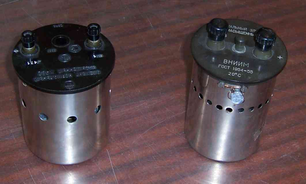 Voltage reference batteries (Weston mercury+cadmium cells).